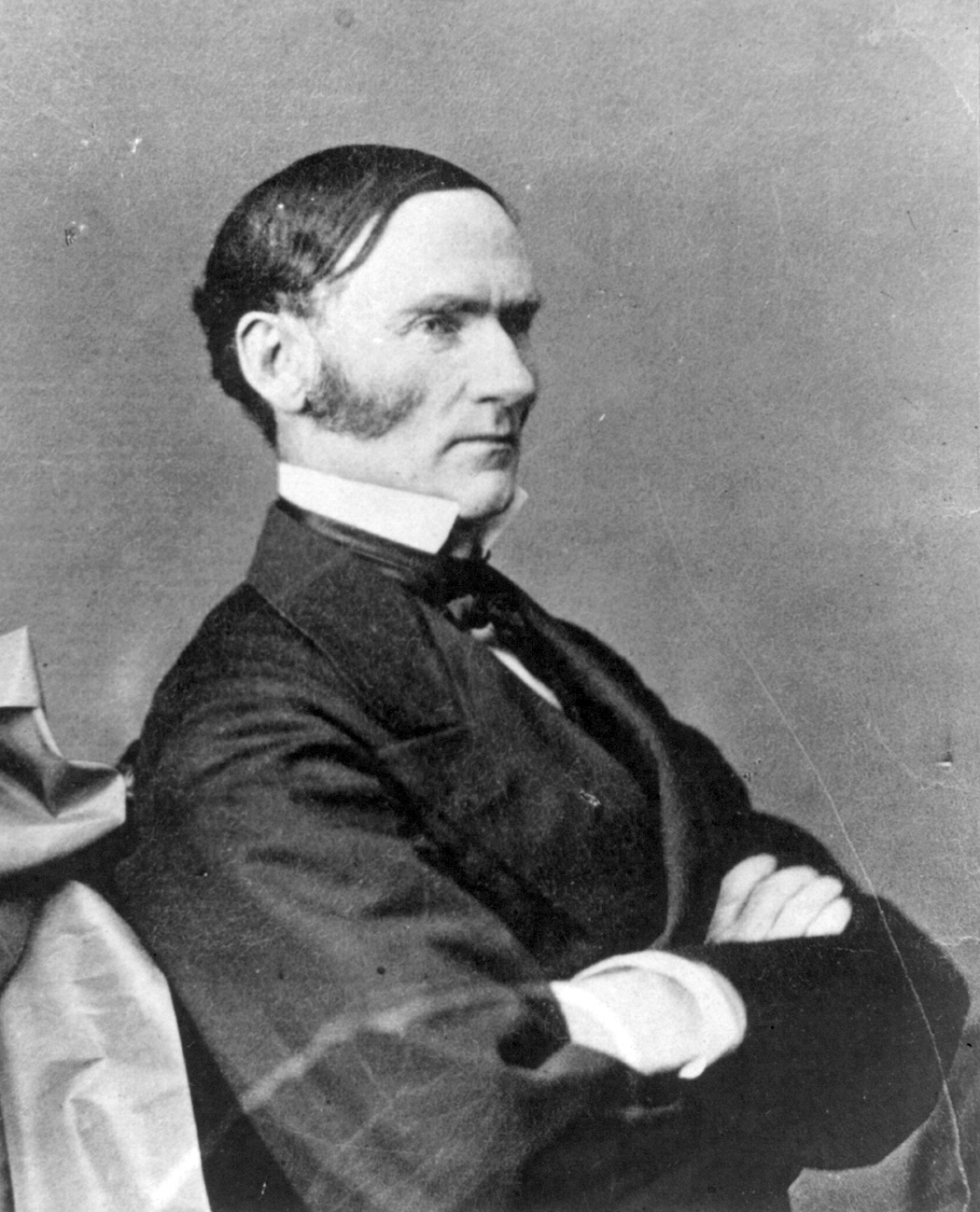 Edward Dickinson Baker, half-length portrait, seated, facing right, arms folded